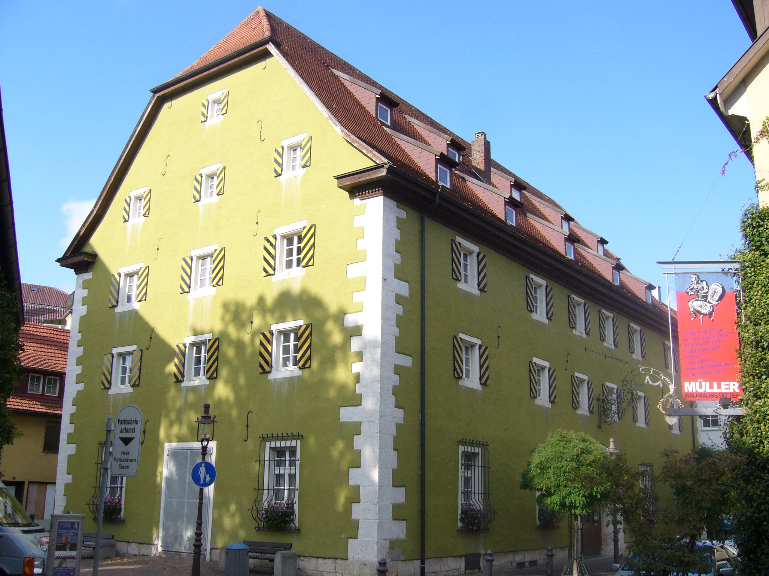 Fruchtkasten Tuttlingen, museum of municipal history